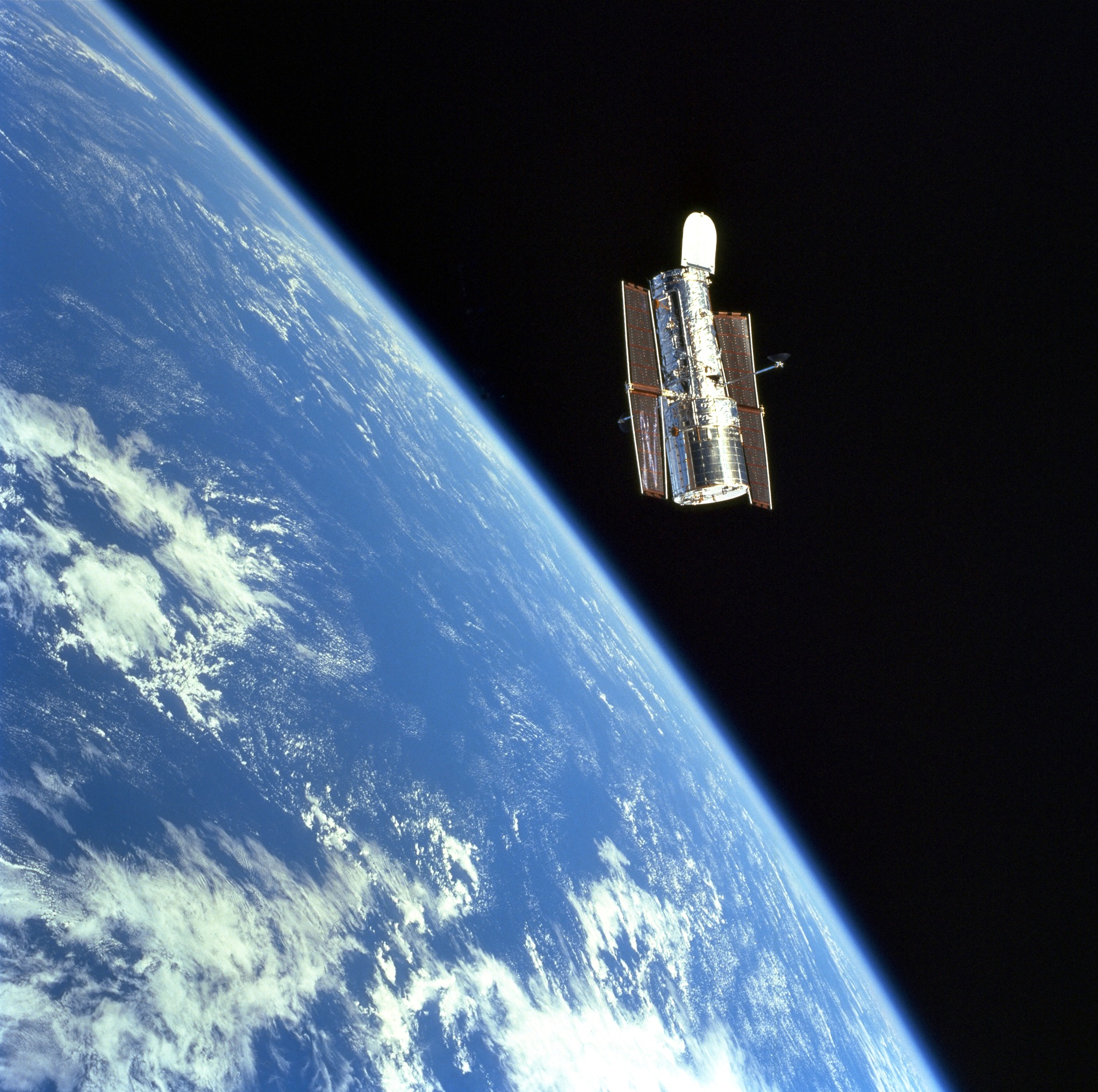 The Hubble Space Telescope (HST) floats gracefully above the blue Earth after release from Discovery�s robot arm after a successful servicing mission. The event marks the fourth time in history that a Space Shuttle has released the great observatory. Those occasions were the initial release in 1990 and three subsequent servicing missions including STS-103.